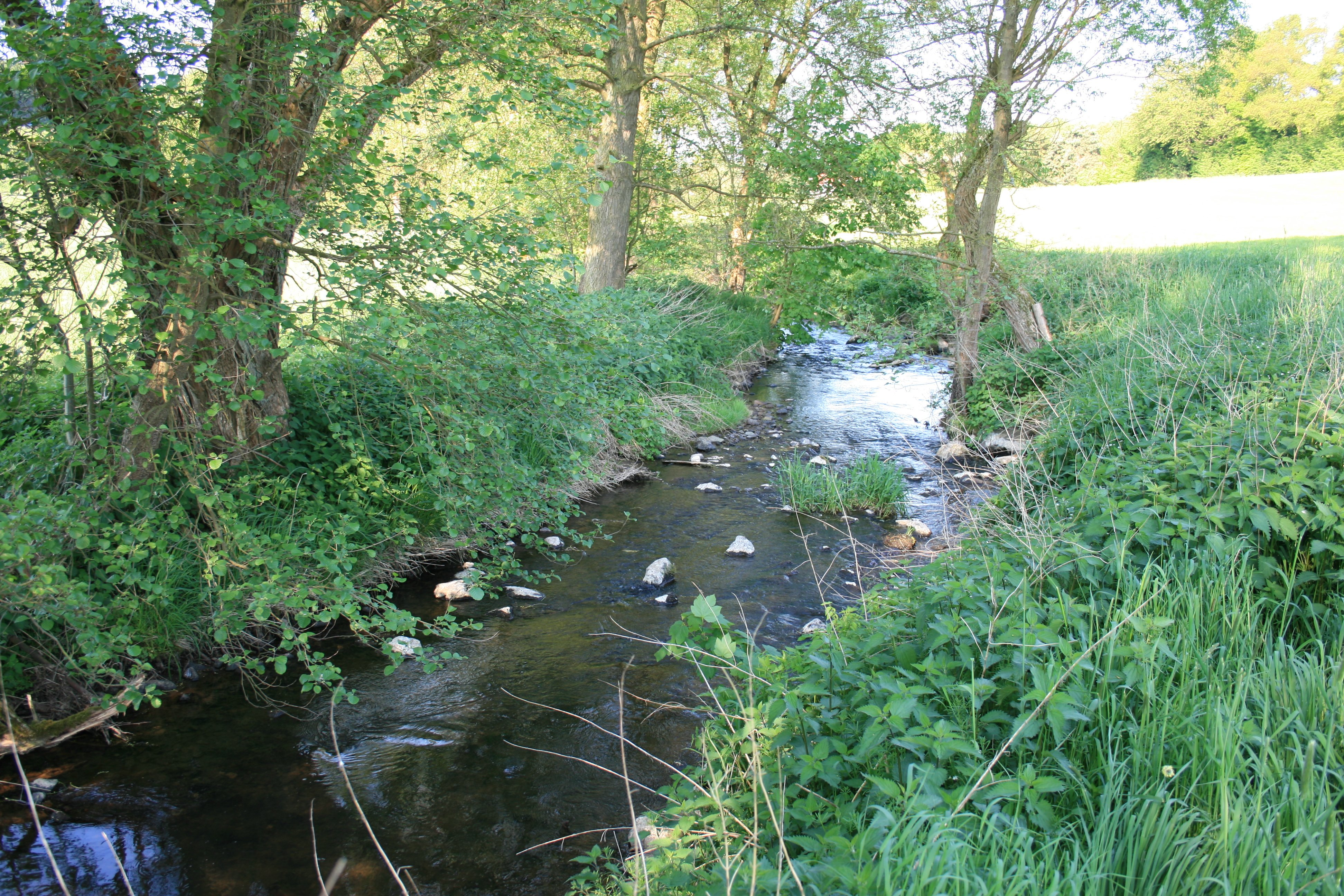 River Sayn between Zürbach and Maxsain, approx. 8 km behind its source, Westerwald, Rhineland-Palatinate, Germany